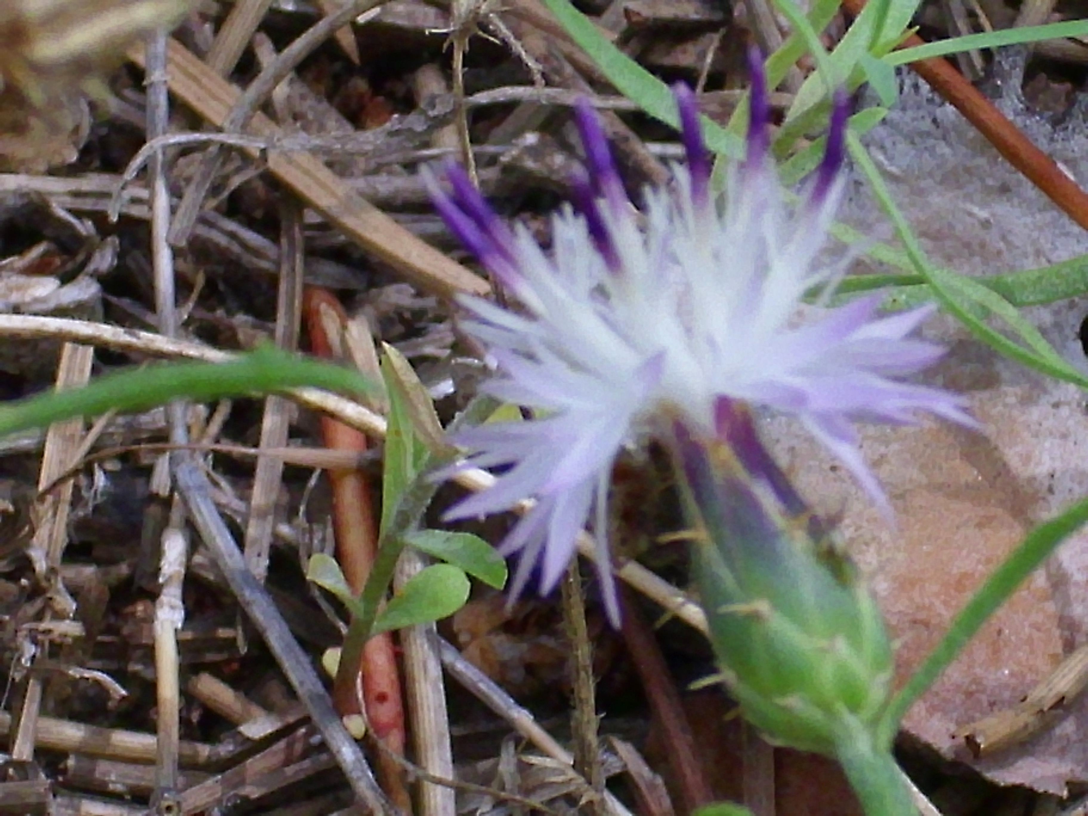 Centaurea aspera close up, La Mata, Torrevieja, Alicante, Spain.